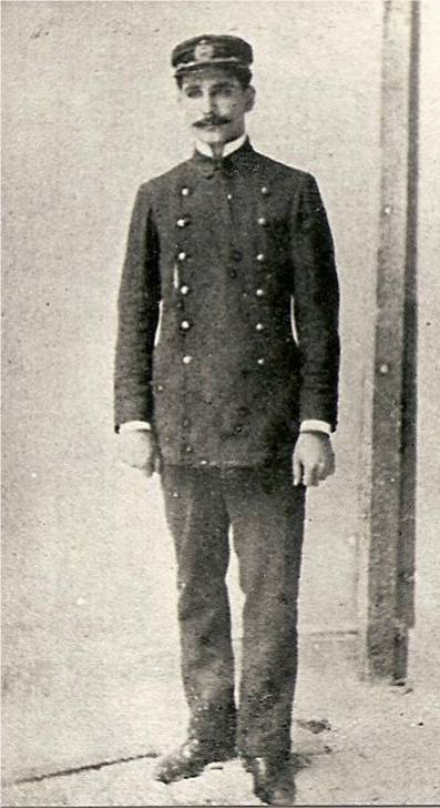 my grandfather as policeman - 1913